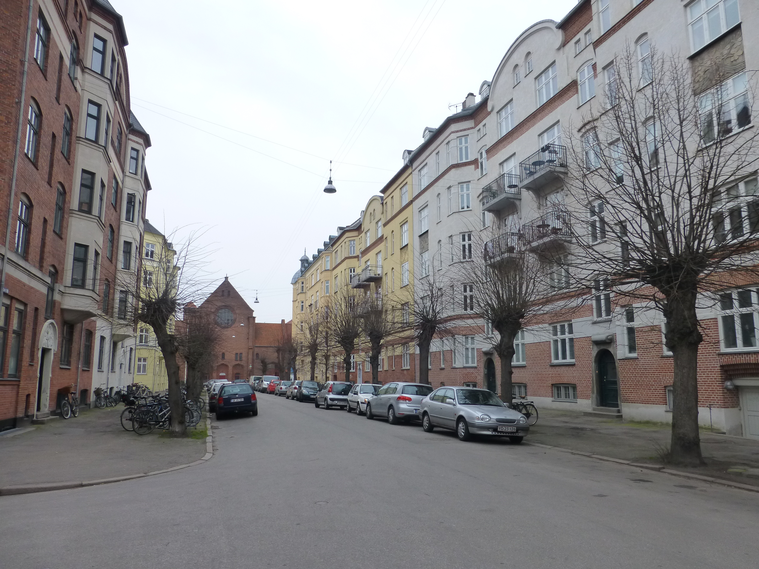 P.D. Løvs Alle is a street in Nørrebro in Copenhagen.